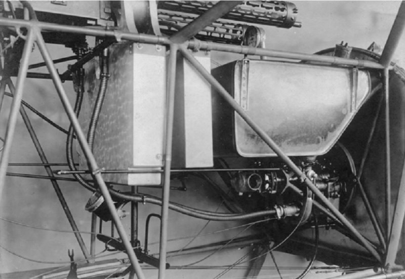 Twin guns synchronized by the Zentralsteuerung system in a 1917/18 Fokker Fighter